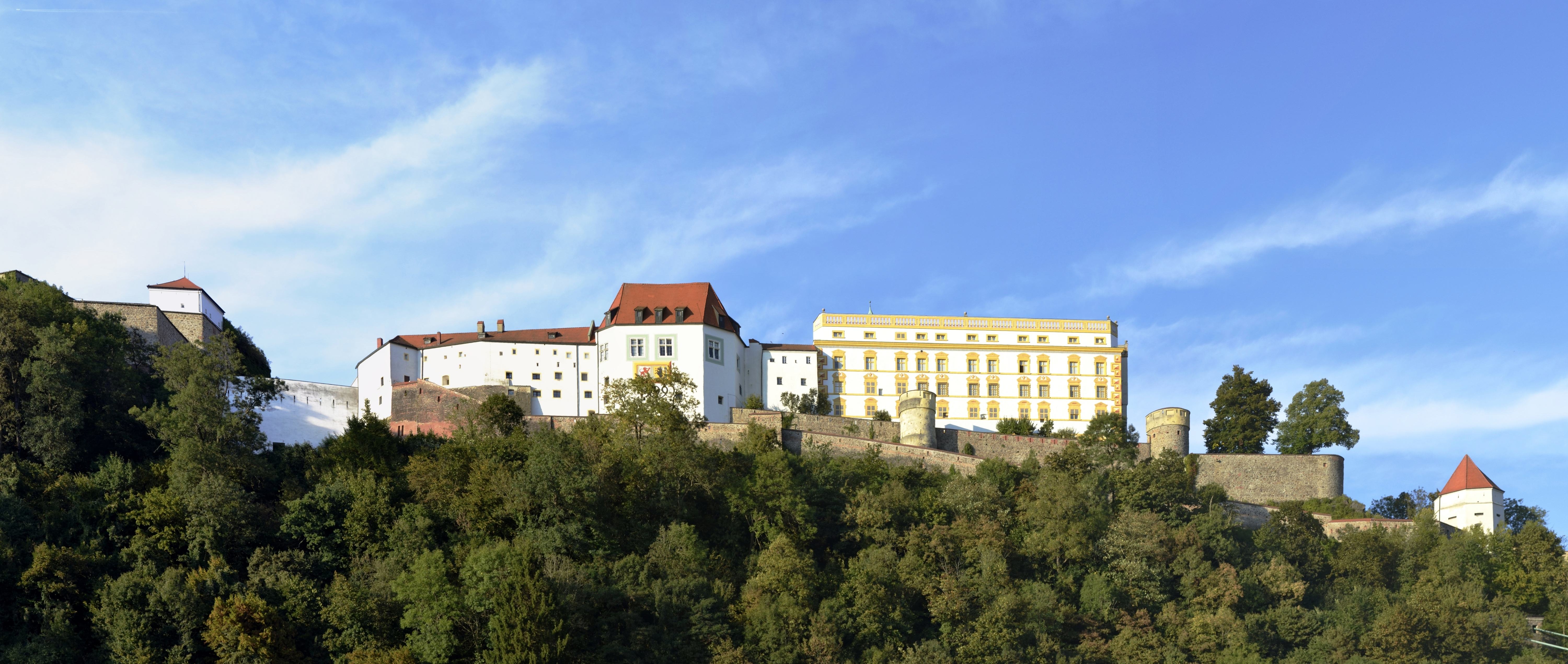 The Veste Oberhaus in Passau.